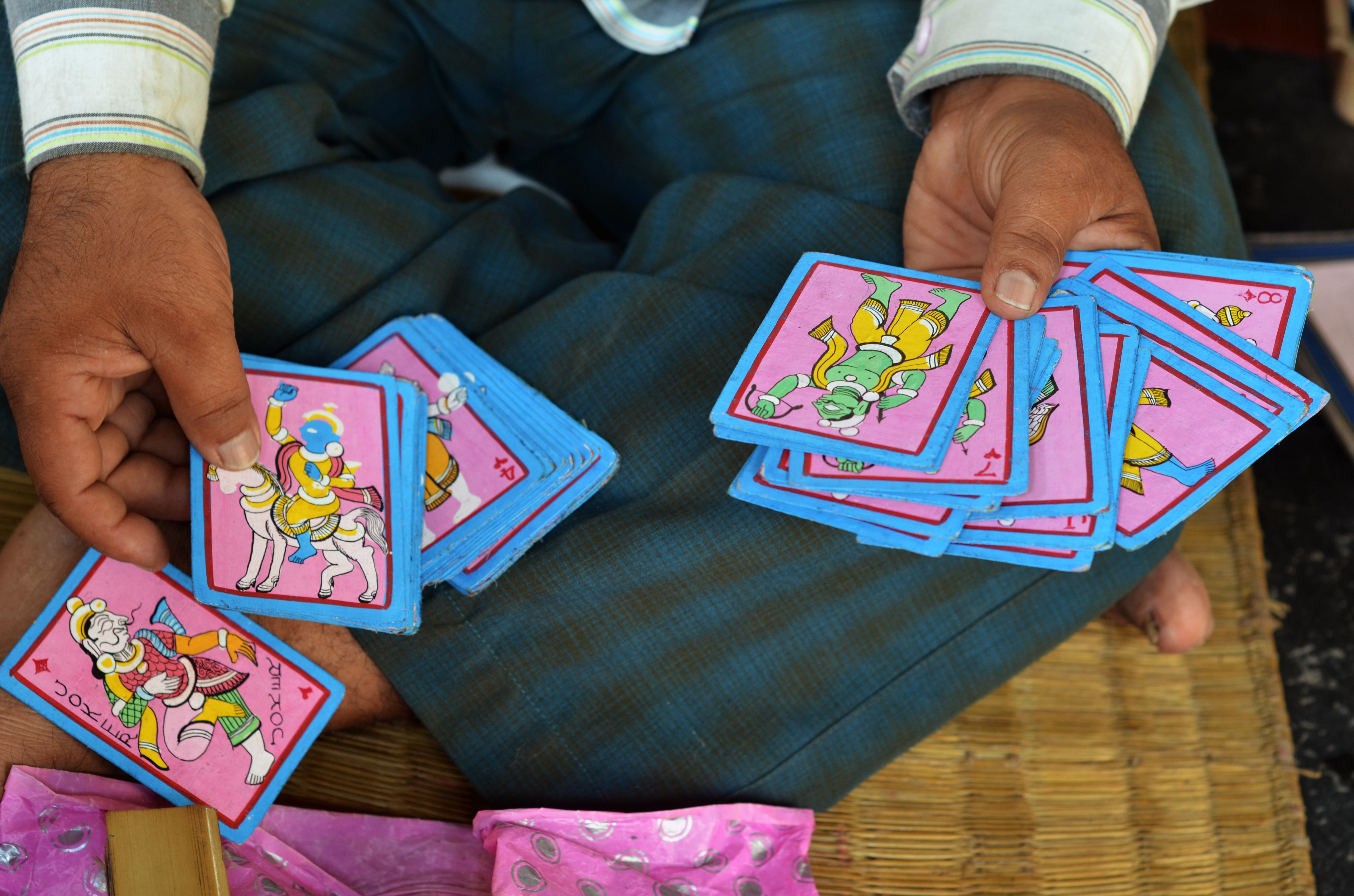 Ganjapa is a traditional game from the Indian state of Odisha. Carirangi ganjapa has cards of four colors. Each color has 12 cards that make 48 cards totally.